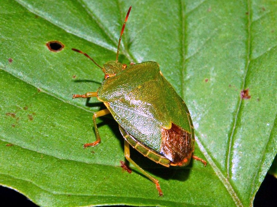 Palomena prasina. Val Noci, Genova, Italy